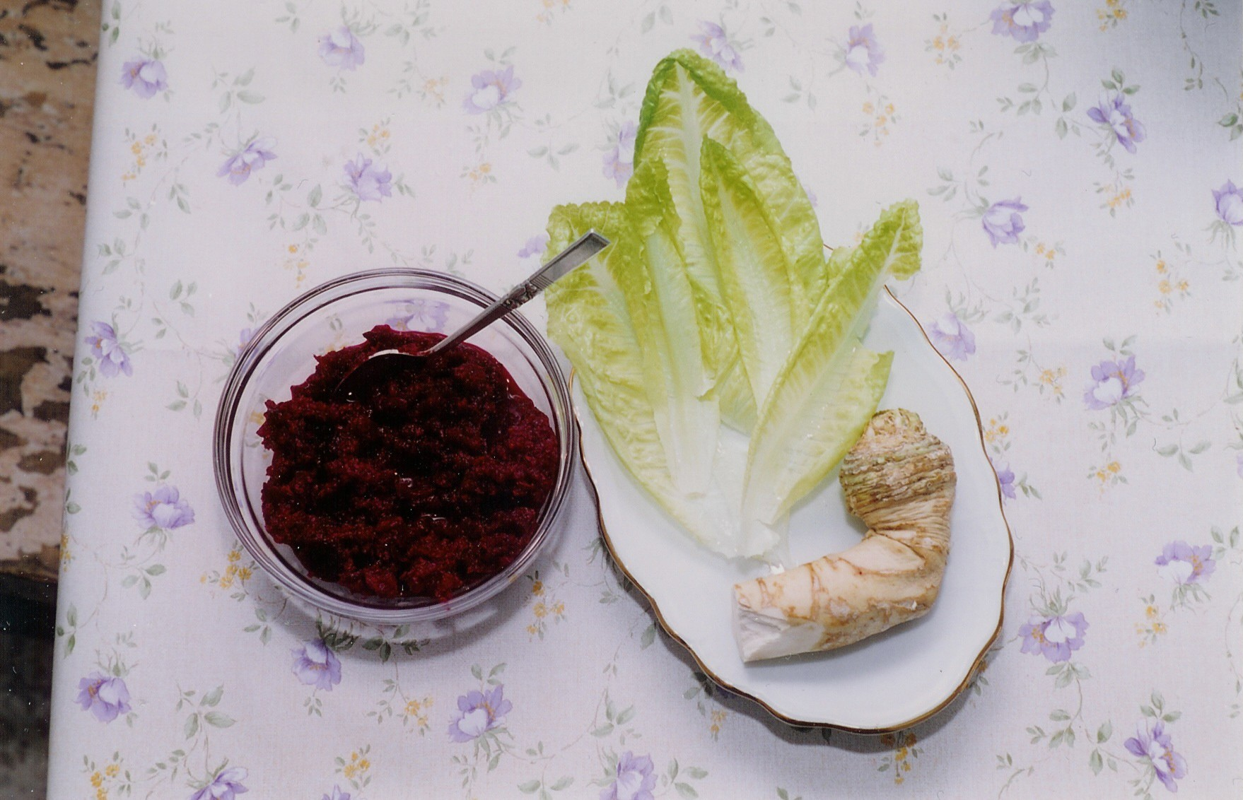 Photo of 3 types of maror used at the Passover Seder. Left to right: grated horseradish mixed with cooked beets and sugar (known as chrein in Yiddish), endive lettuce leaf, whole horseradish root. Photo taken by User:Yoninah on April 12, 2006.